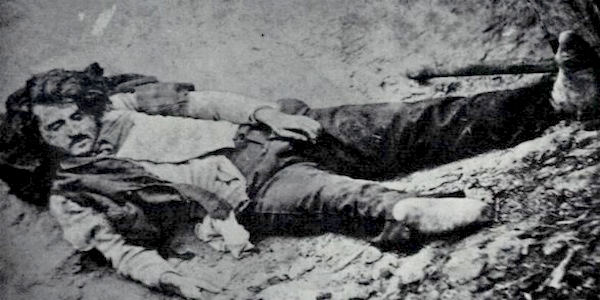 Il brigante Ninco Nanco (1833 - 1864) poco dopo la sua morte